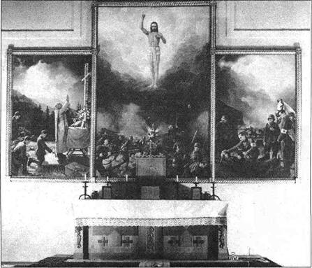 The altar of the chapel from the Hadapródiskola (1941 - 1945) in Marosvásárhely/TârguMureş.